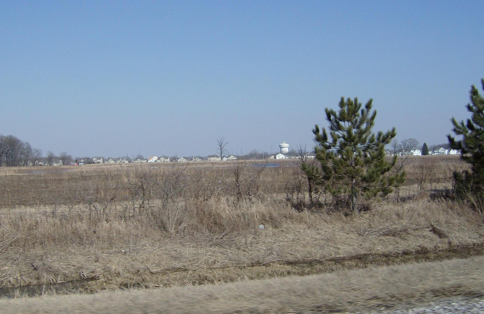 Houses in Jerome Township, Union County, Ohio, United States, taken from U.S. Route 33